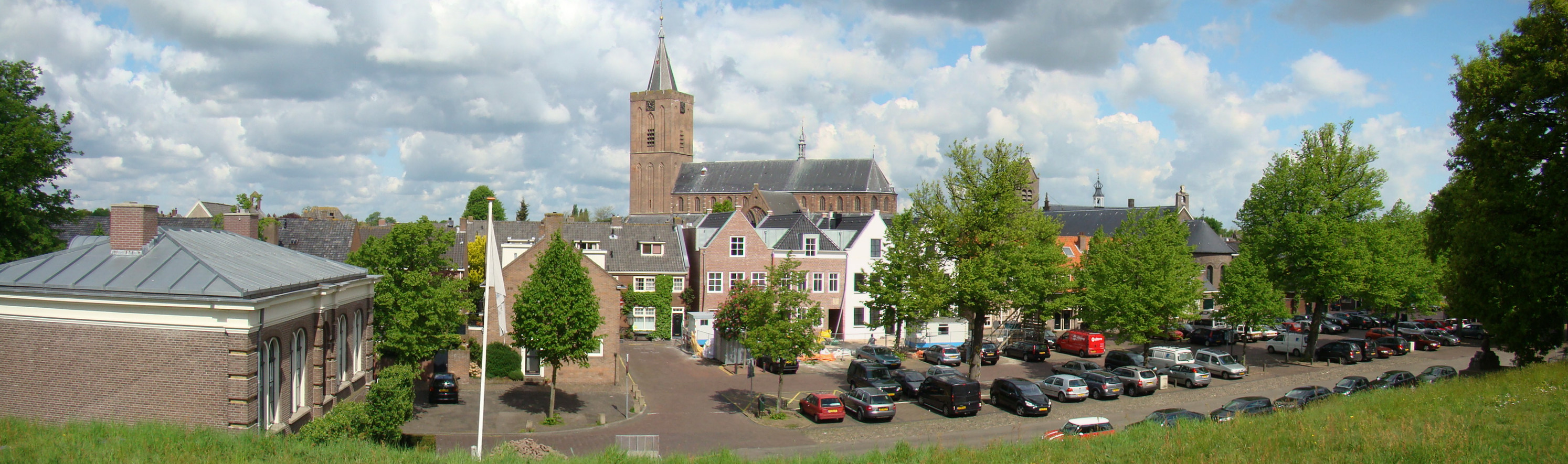 panoramic view on Naarden, Netherlands